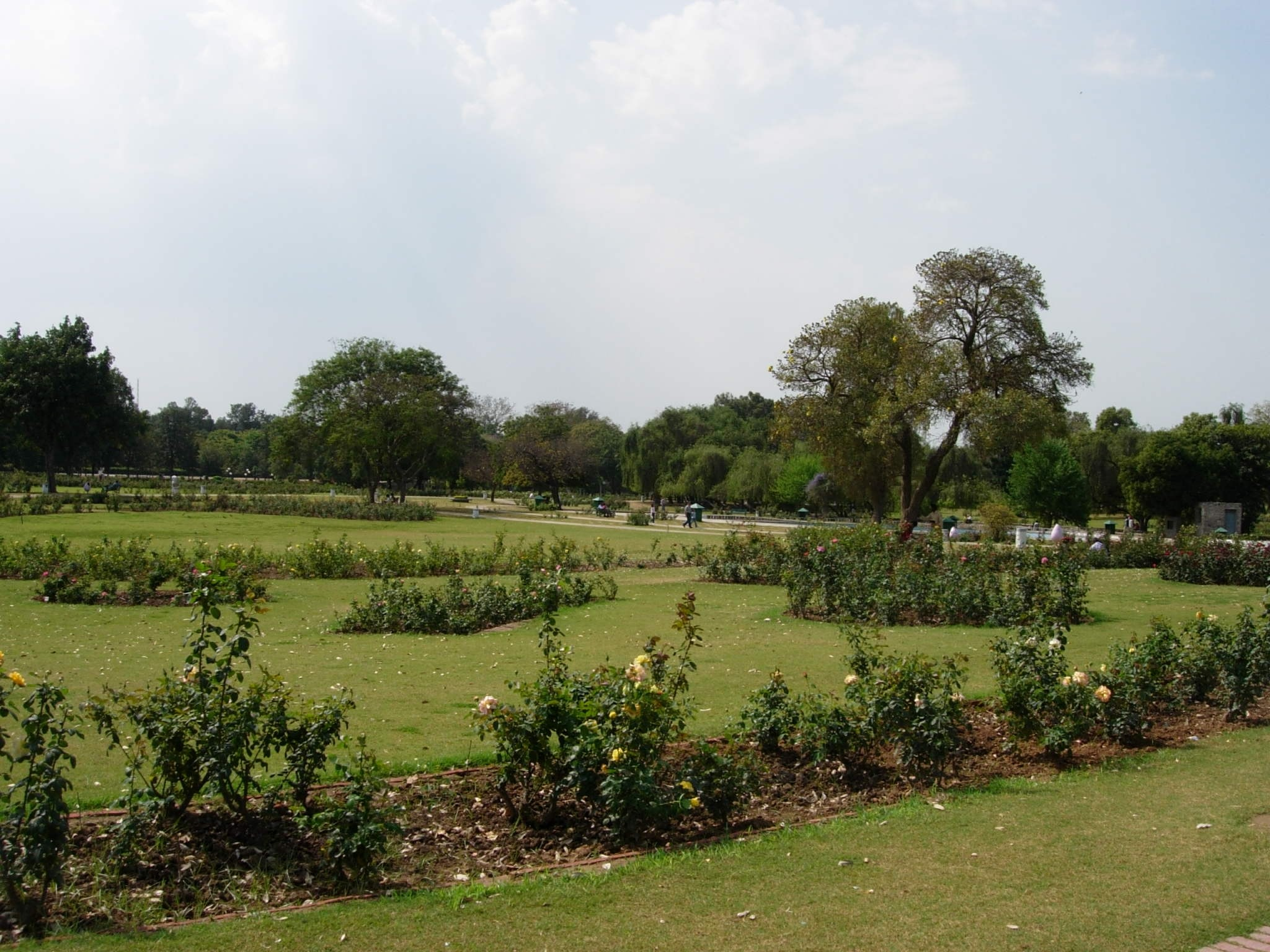 Chandigarh Rose Garden. The Rose Garden, Chandigarh (city).